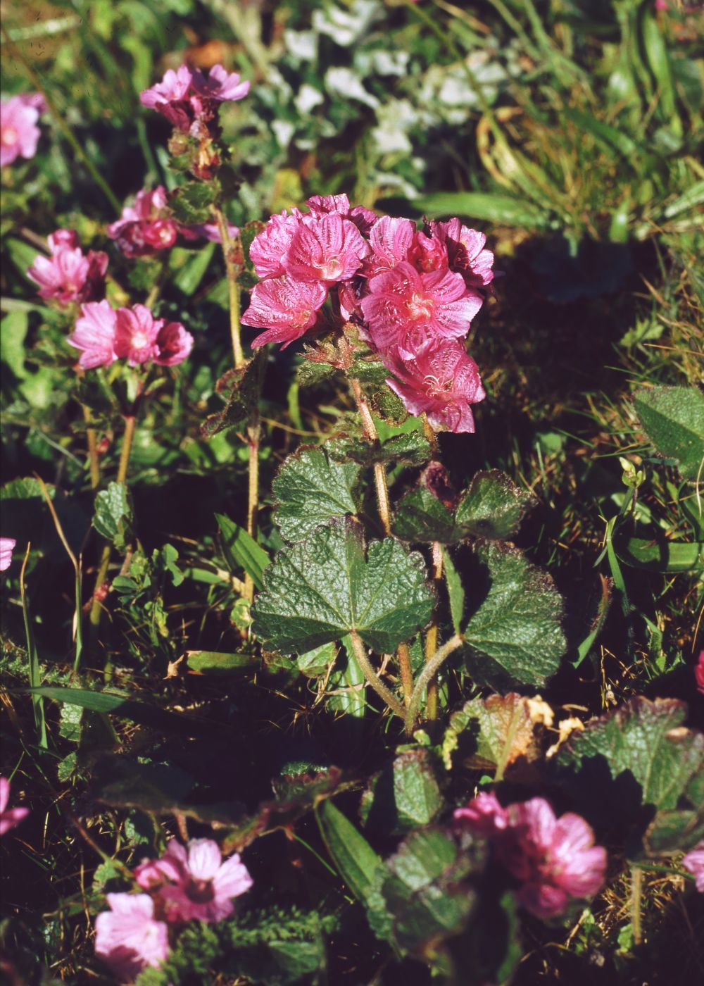 Sidalcea malviflora, Malvengewächse (Malvaceae) - USA, Kalifornien/California: Point Reyes National Seashore, W Chimney Rock (Marin County)